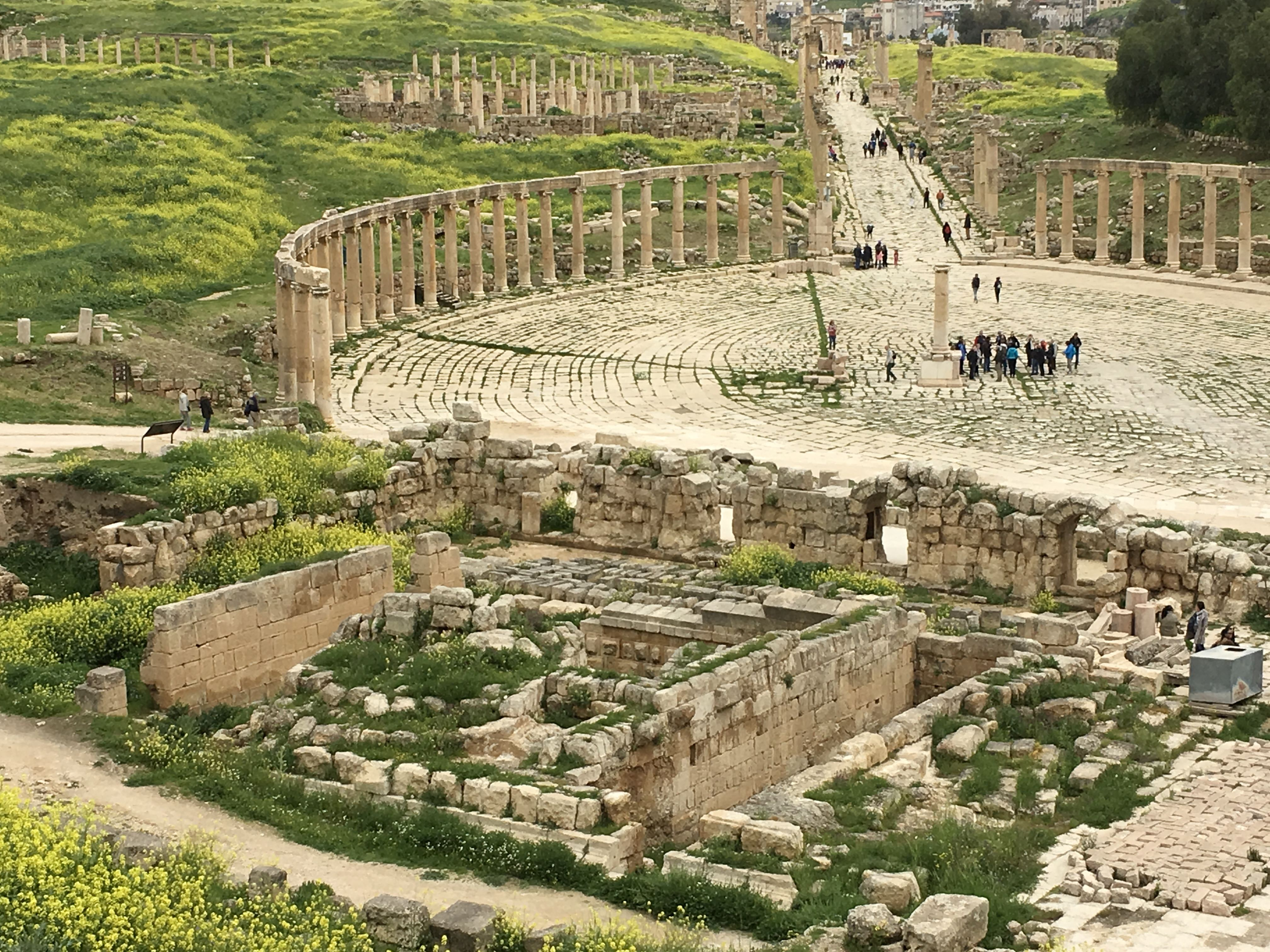 Zeus altar